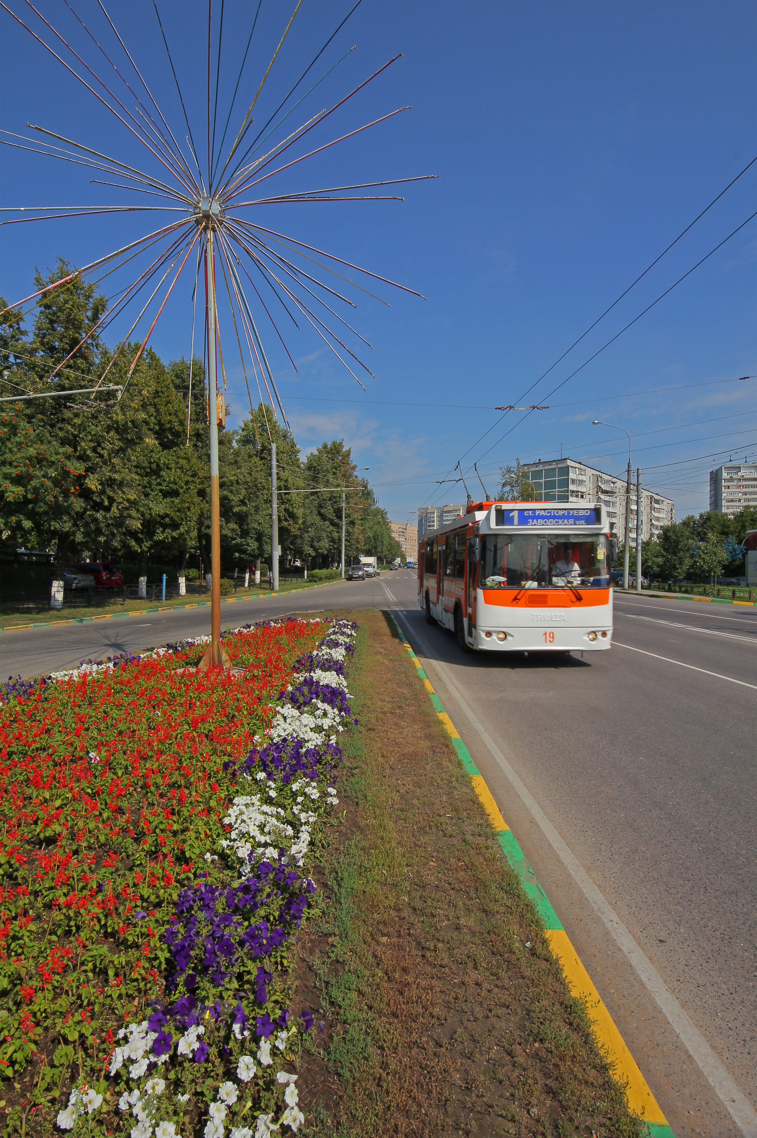 Trolleybus on Leninskogo Komsomola Avenue in Vidnoye, Moscow Oblast, Russia